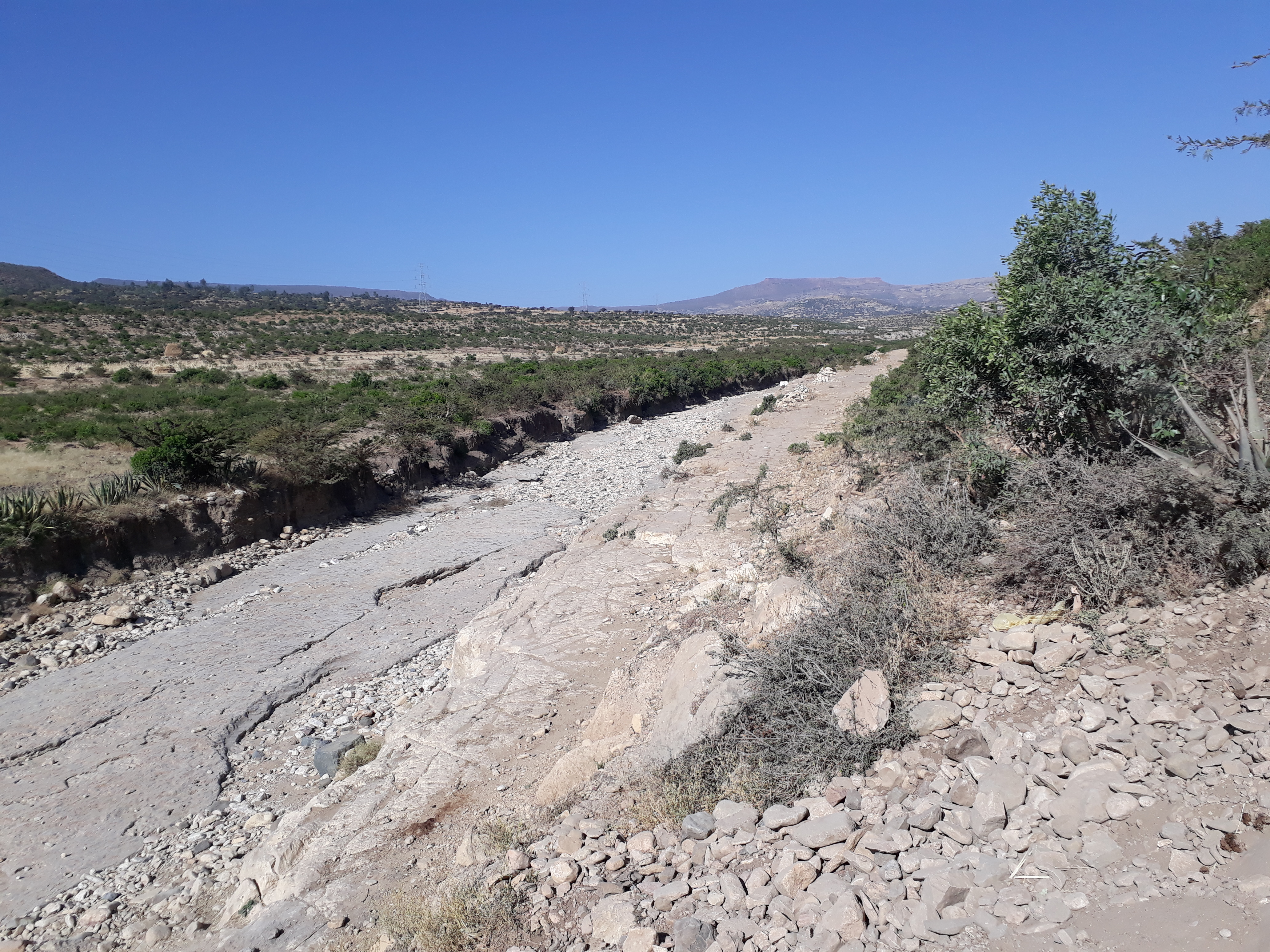 Hurura River2